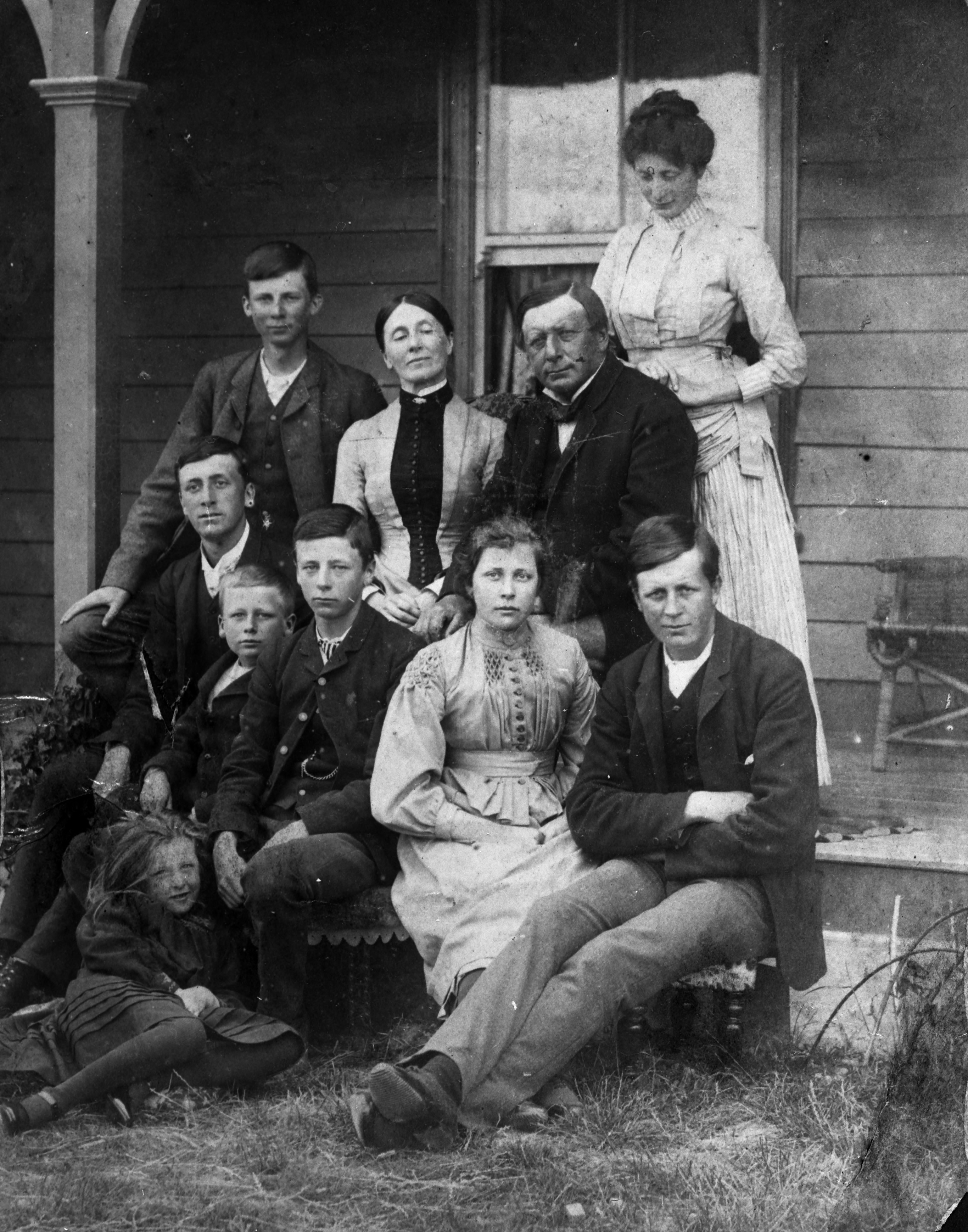 Mary and William Rolleston and their children, at Kapunatiki in 1888. Standing at back: Rosamund. Back row: Hector, Mary and William. Front row: Arthur, John, Frank, Dorothy and Lance. Ground: Margaret.